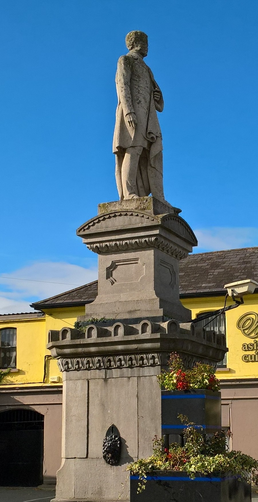 County Louth, Sir Frederick Foster Memorial. Wikidata has entry Q55047247 with data related to this item.